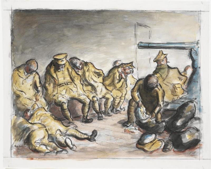 At the start of the war, Ardizzone was recalled to his Territorial unit, the 54th Regiment, Royal Artillery. This work shows the unit in a drill hall in Putney. Soon after, the unit was sent to Dartford for training and by December, Ardizzone had become a Bombardier with the 'F' Troop, 162 Anti-Aircraft Battery, Royal Artillery in Woolwich. image: A line of British soldiers sleeping seated on a bench and on the floor. The barrel of a gun is visible on the right hand side of the picture. Just below a soldier is packing his kit bag.